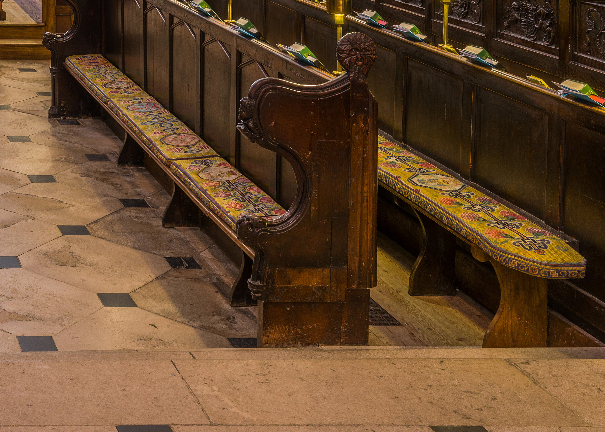 Embroideries in the choir stalls at Winchester Cathedral